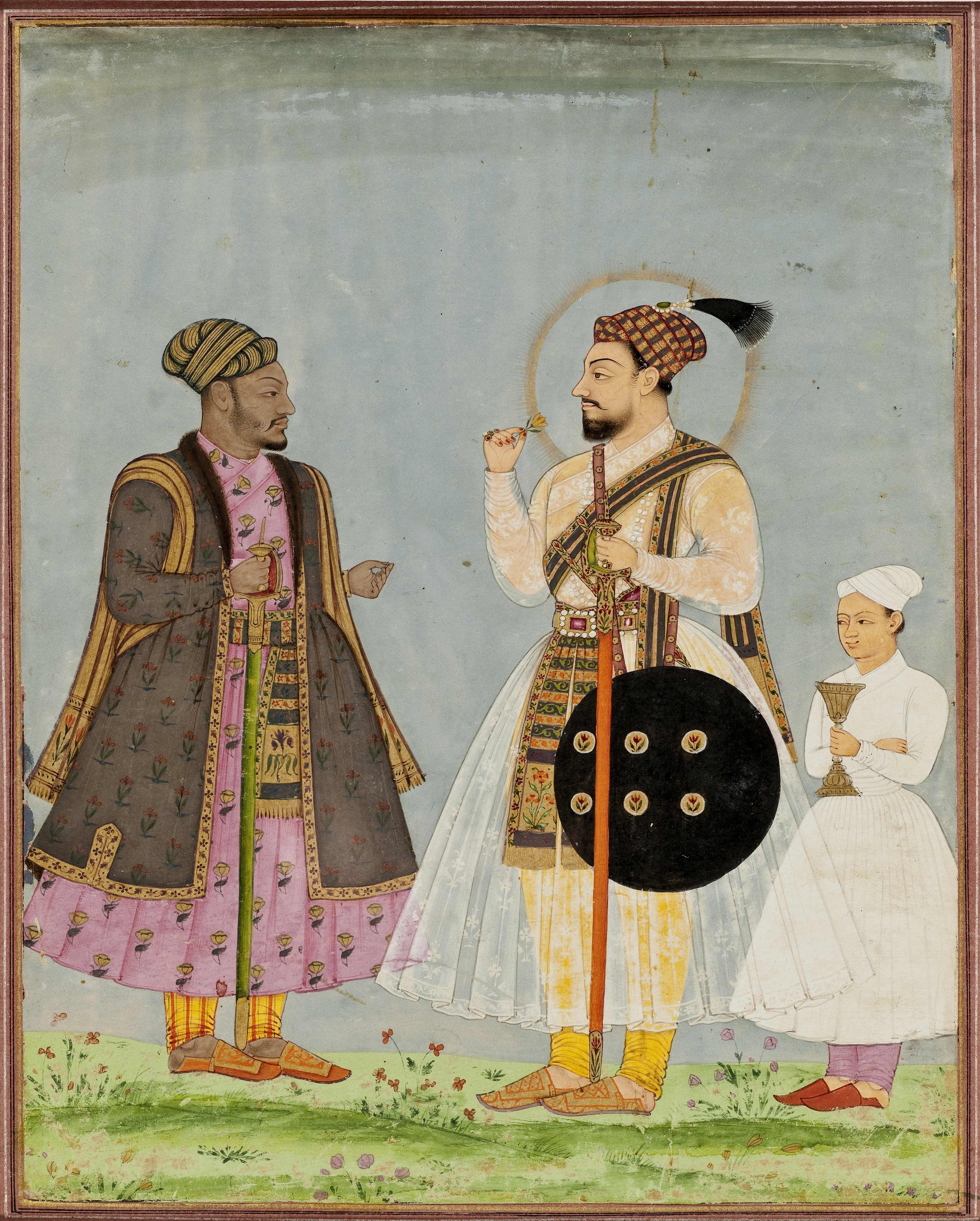 India, Karnataka, Bijapur (recto); Iran or India (verso), 1650-1675 (recto), 17th century (verso) Drawings; watercolors Opaque watercolor and gold on paper; border: paper embossed with gold From the Nasli and Alice Heeramaneck Collection, Museum Associates Purchase (M.76.2.35) South and Southeast Asian Art